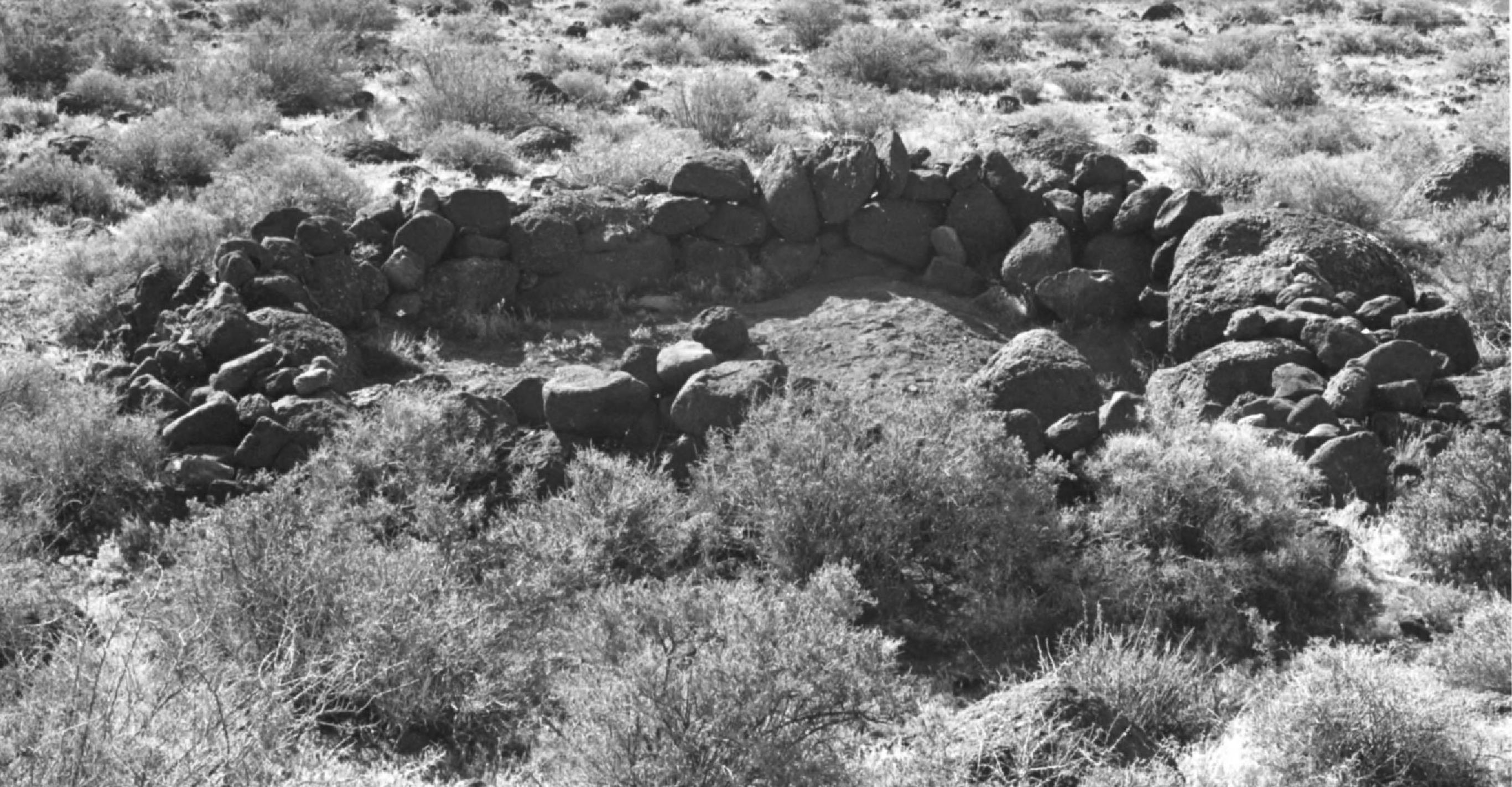 Remains of a prehistoric stone-walled house in the East Lake Abert Archeological District. The district, located in Lake County, Oregon, United States, encompasses a collection of prehistoric archeological sites, and is listed on the US National Register of Historic Places.